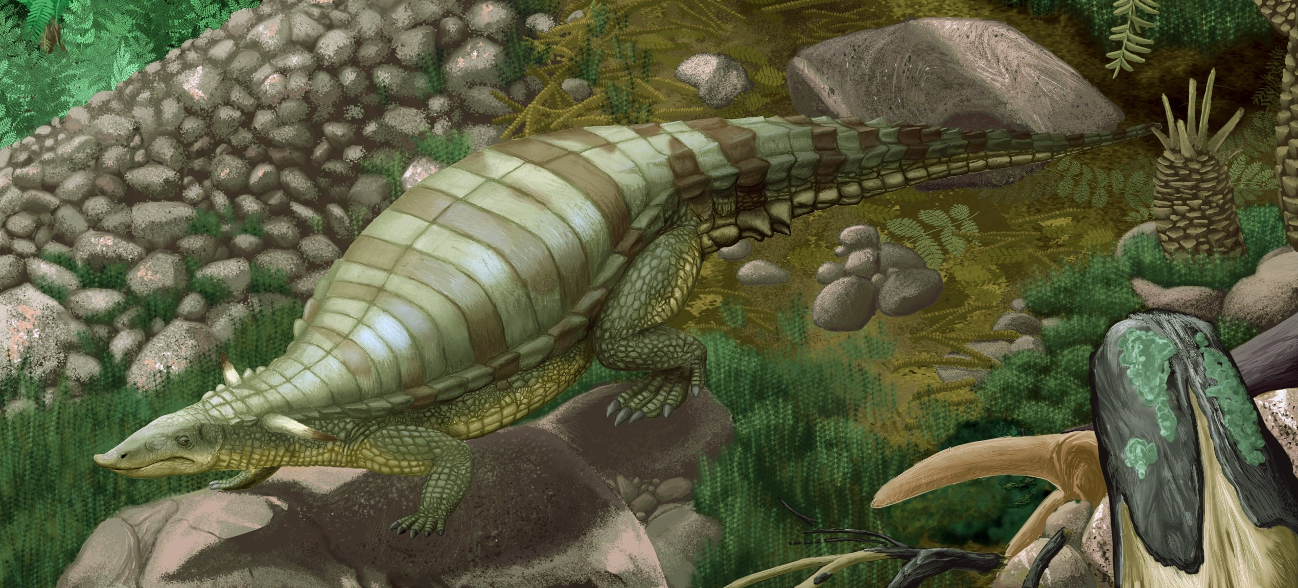 Crop of original file in file name